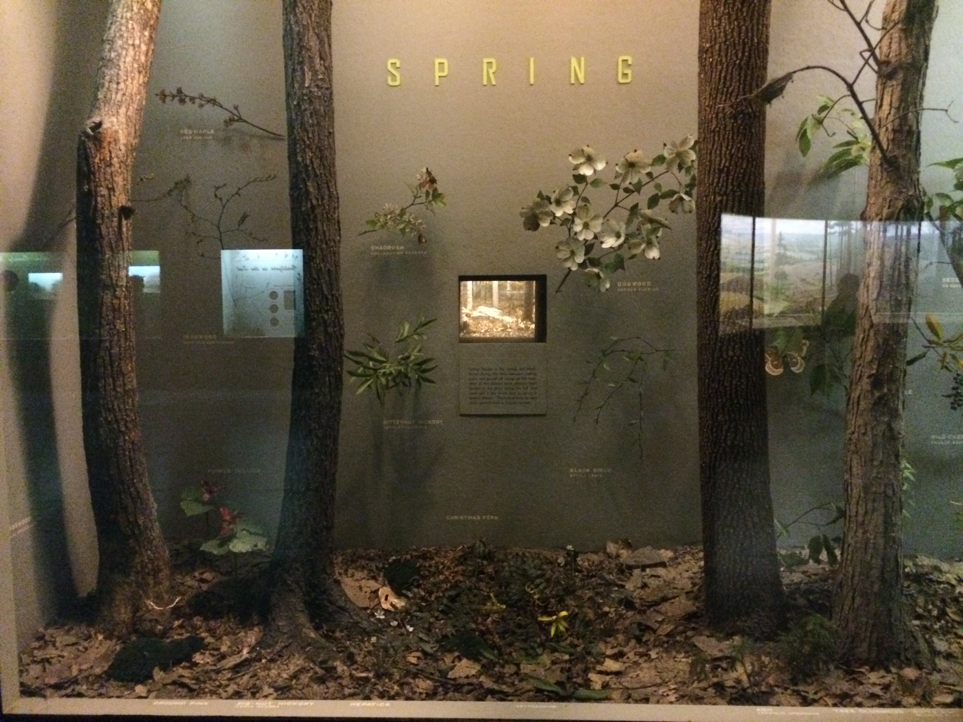 A display from the Warburg Hall of New York State Environments, American Museum of Natural History